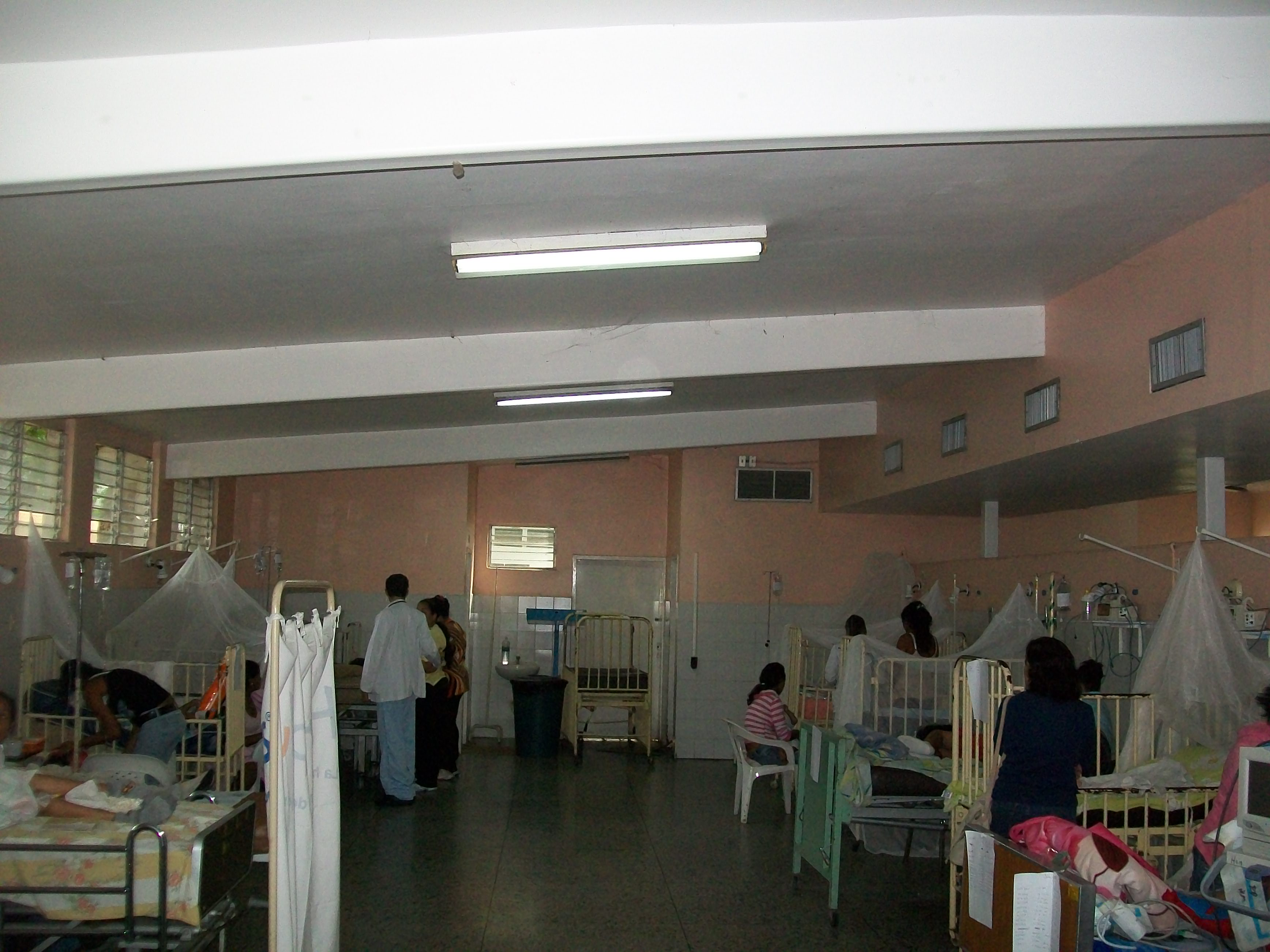 Observation ward within the Pediatrics Emergency Room, Hospital Central de Maracay, Venezuela.